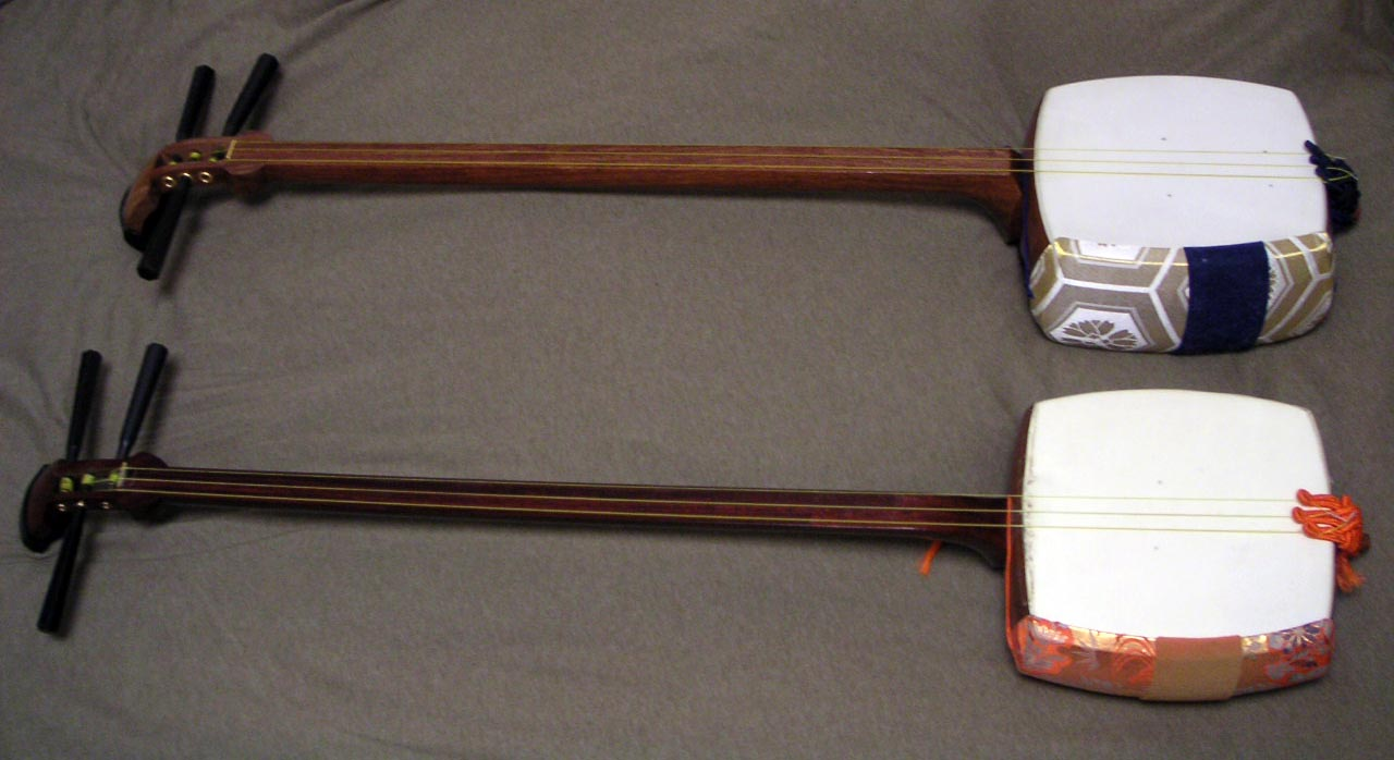 Chuzao-Hosozao shamisen